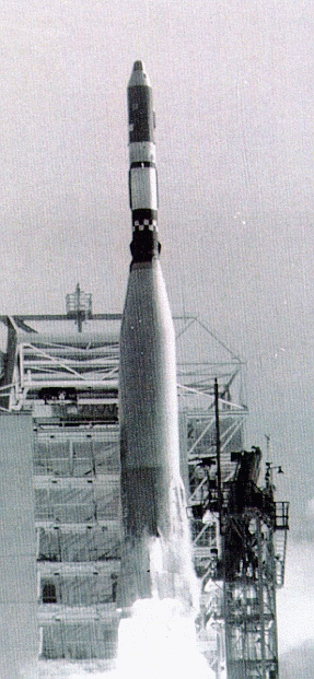 Launch of KH-7 14 onboard of Atlas SLV-3 Agena D rocket.